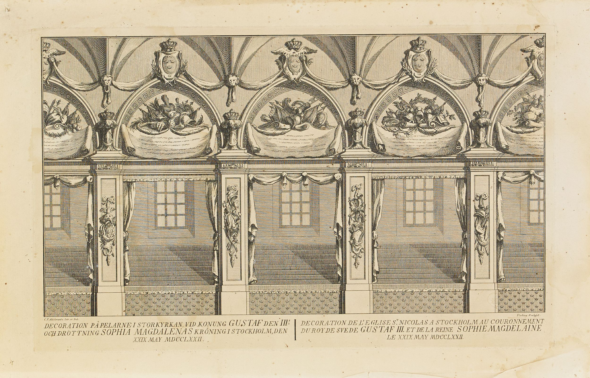 Decorations along the wall in Stockholms Storkyrkan at the coronation of Gustavus III in 1772